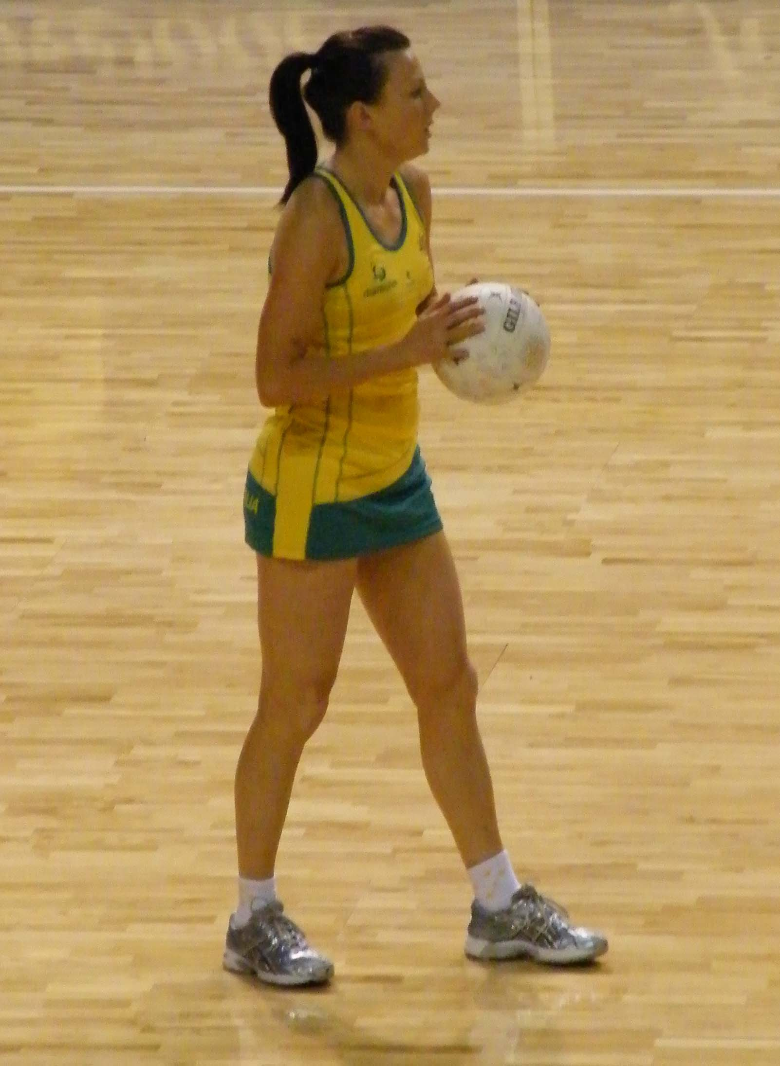 Natalie von Bertouch of the Australian Netball Diamonds in October 2008.